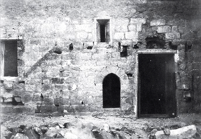 First church of Povoa de Varzim being demolished reveling a Romanesque foundation